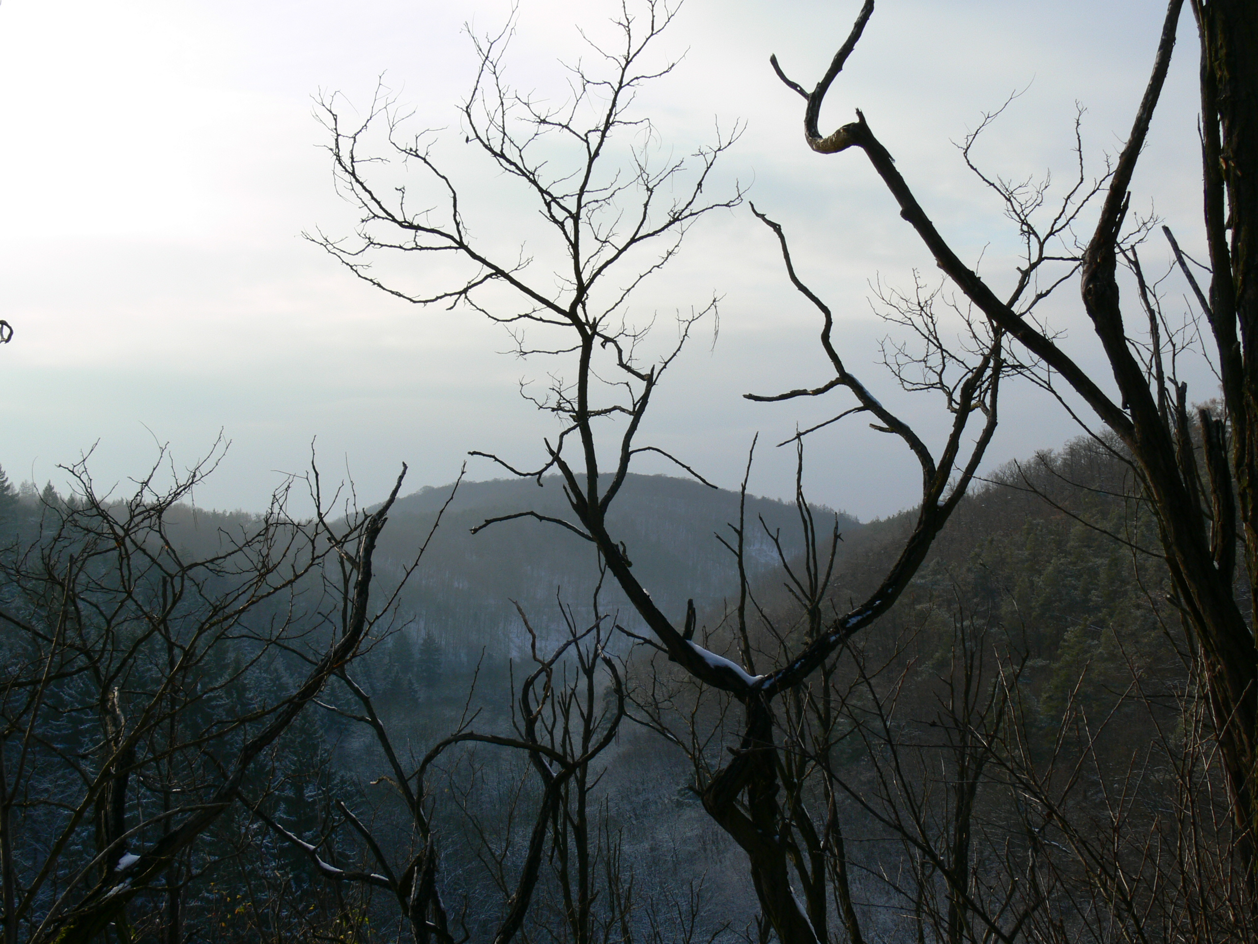 Brezany Valley, CZ